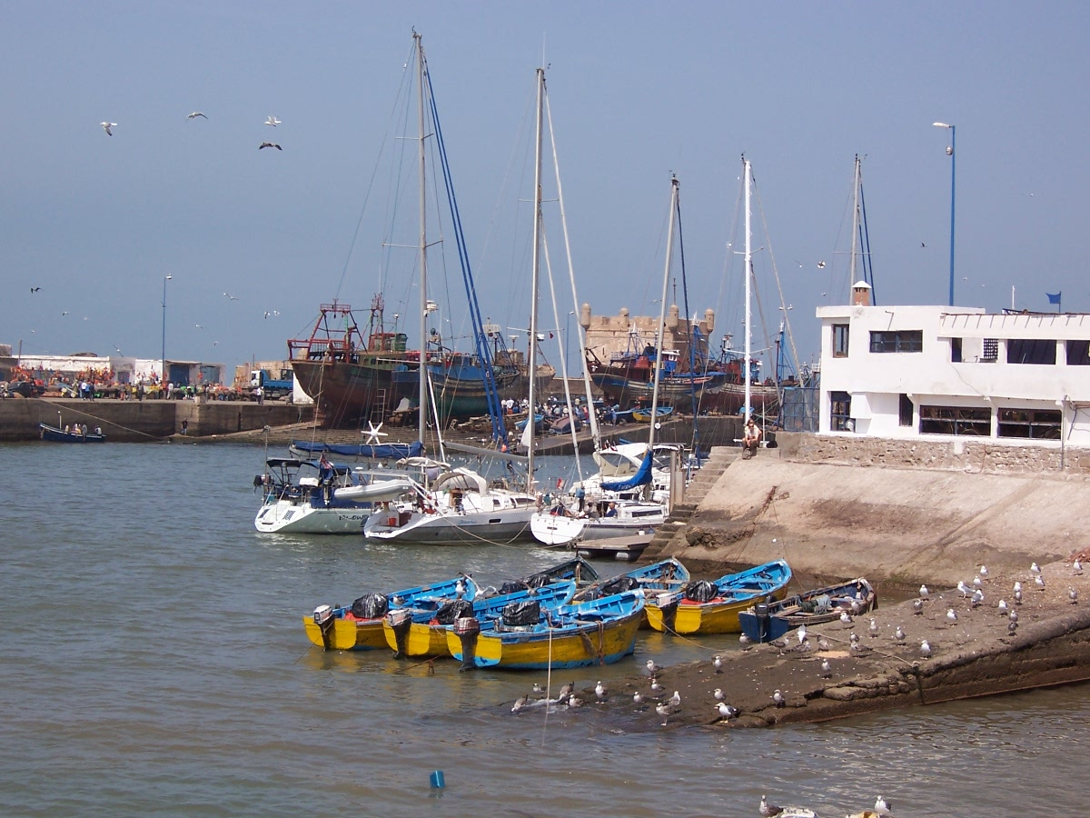 Harbor of Essaouira, Morocco